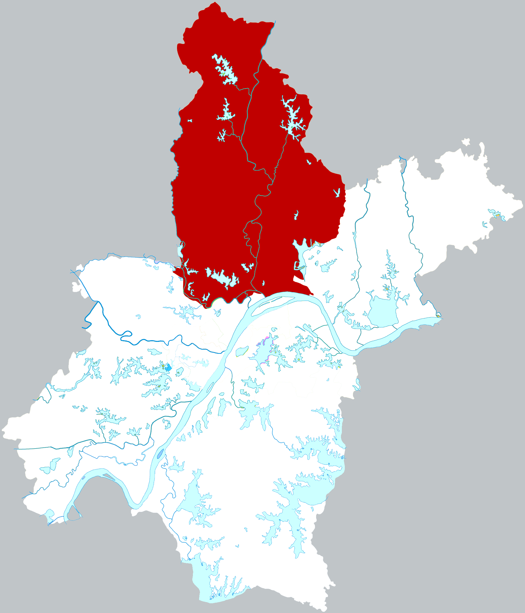 Location of Huangpi district in Wuhan city, China